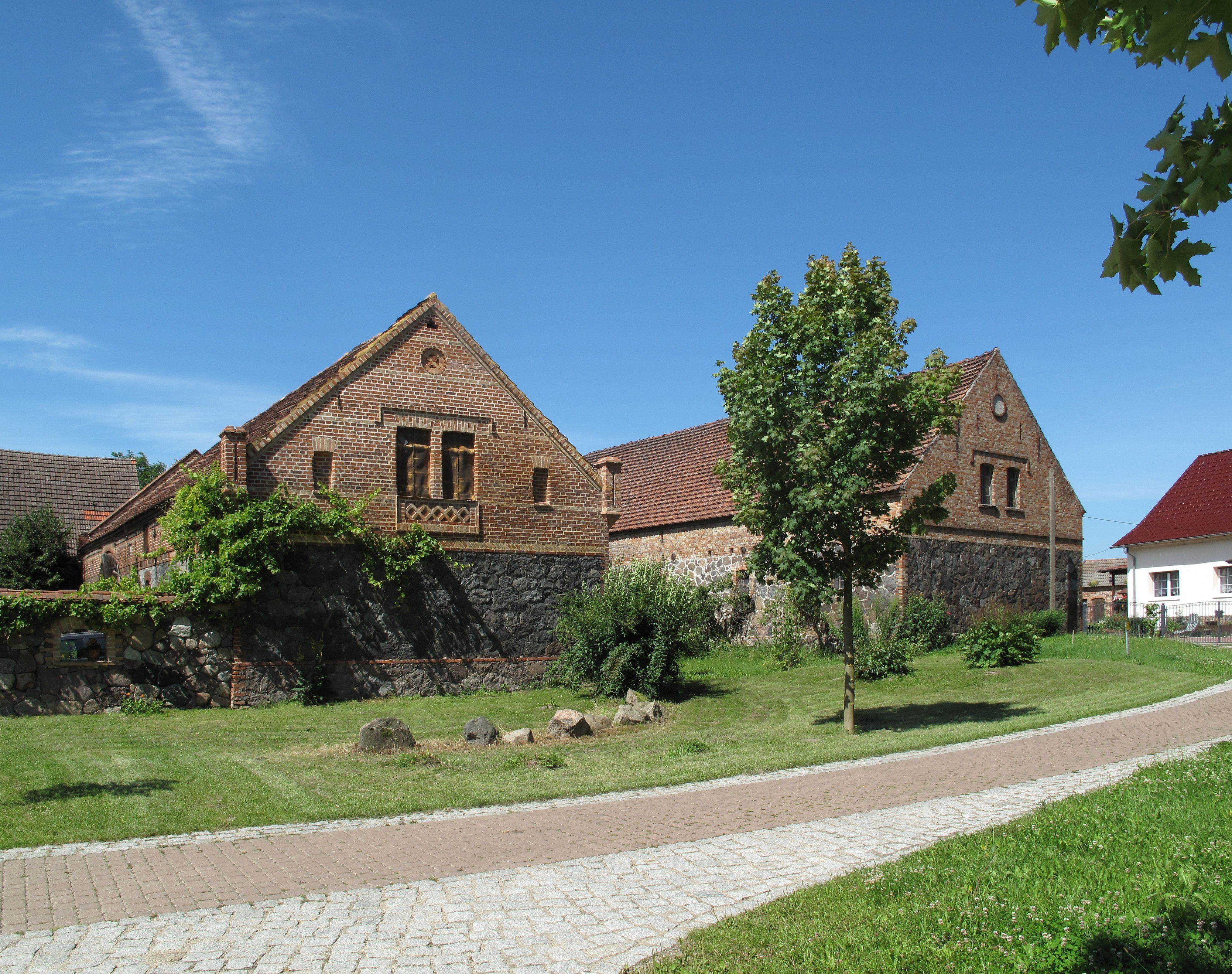 Listed farm house in Pritzhagen. Pritzhagen is a village of the municipality Oberbarnim in the District Märkisch-Oderland, Brandenburg, Germany. It is situated in the Märkische Schweiz Nature Park. The village green with its pond and the perimeter fieldstone-walls was extensively renovated in 2004.